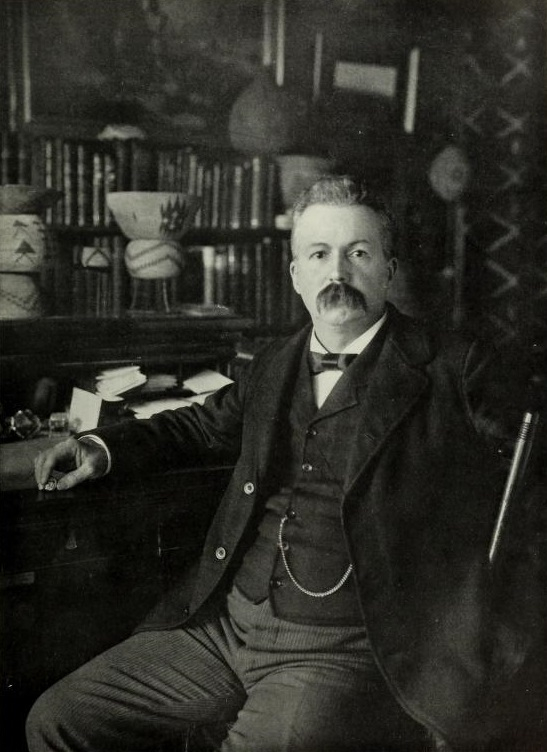 Picture of Clinton Hart Merriam